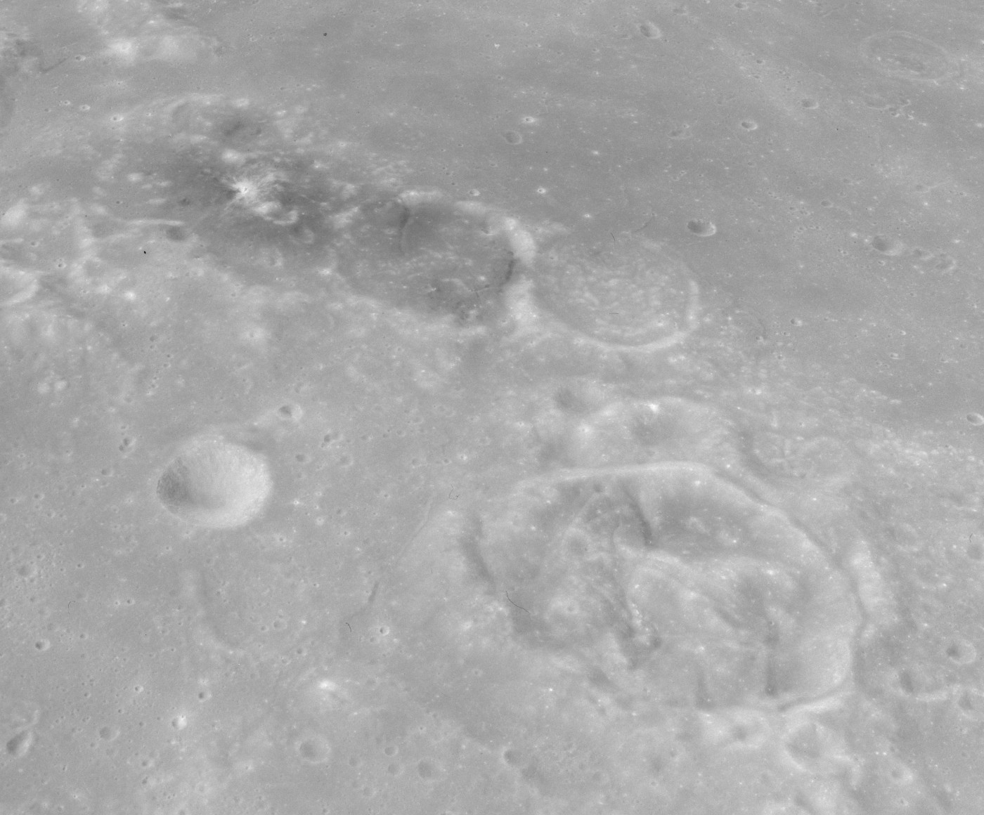 Oblique view of Gaudibert crater (lower right), on the moon, facing south. Satellite craters A and B ("ghost craters") are above center, and J is at left.